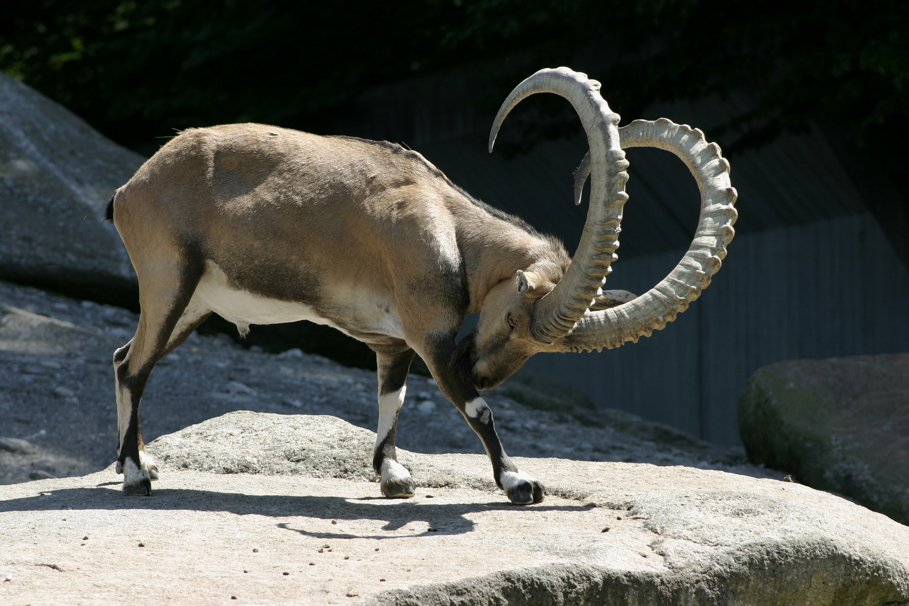 Alpine ibex